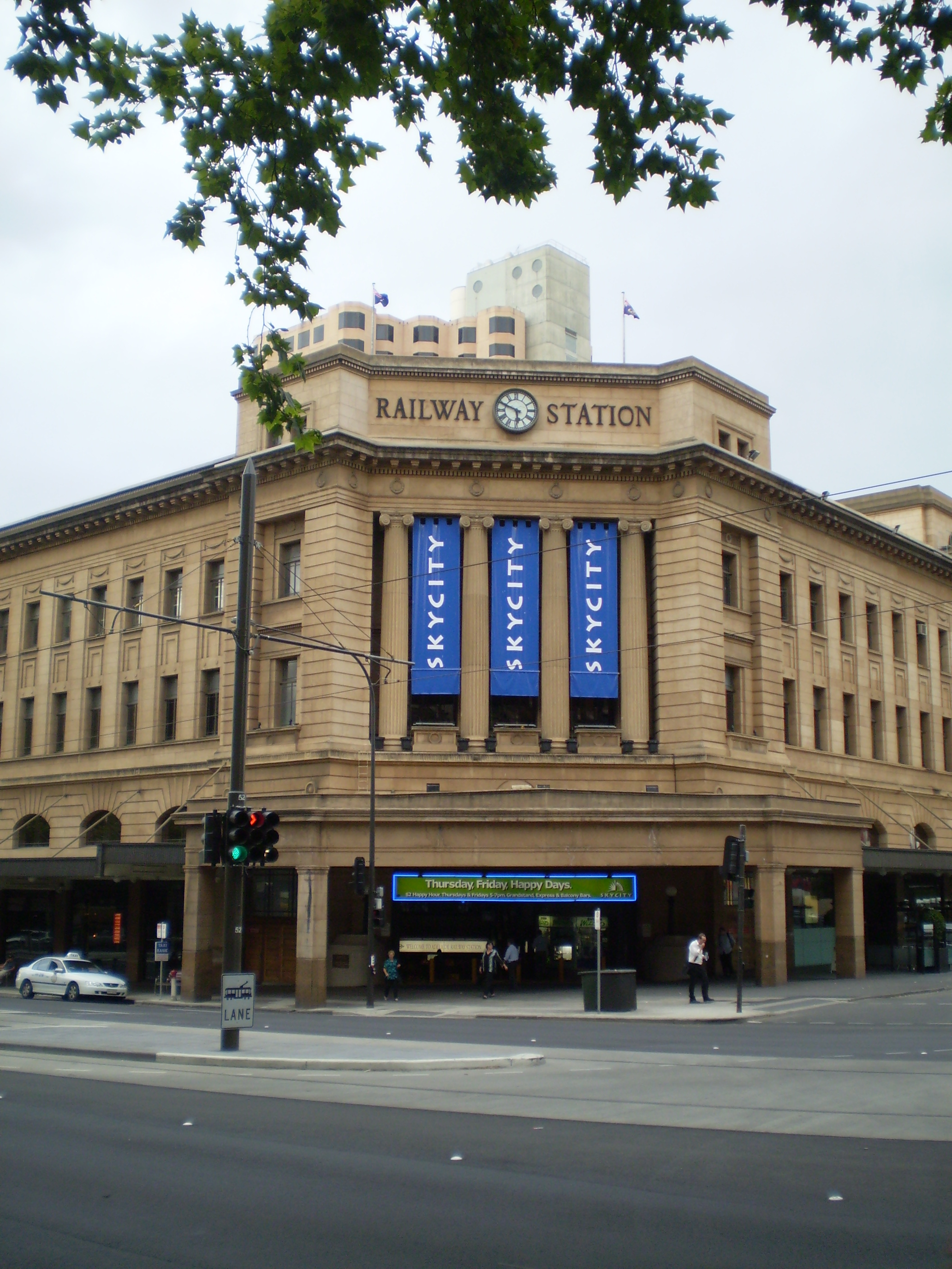 Adelaide Railway Station Taken by Norman Hackenberg on North Terrace on the 19/12/2007